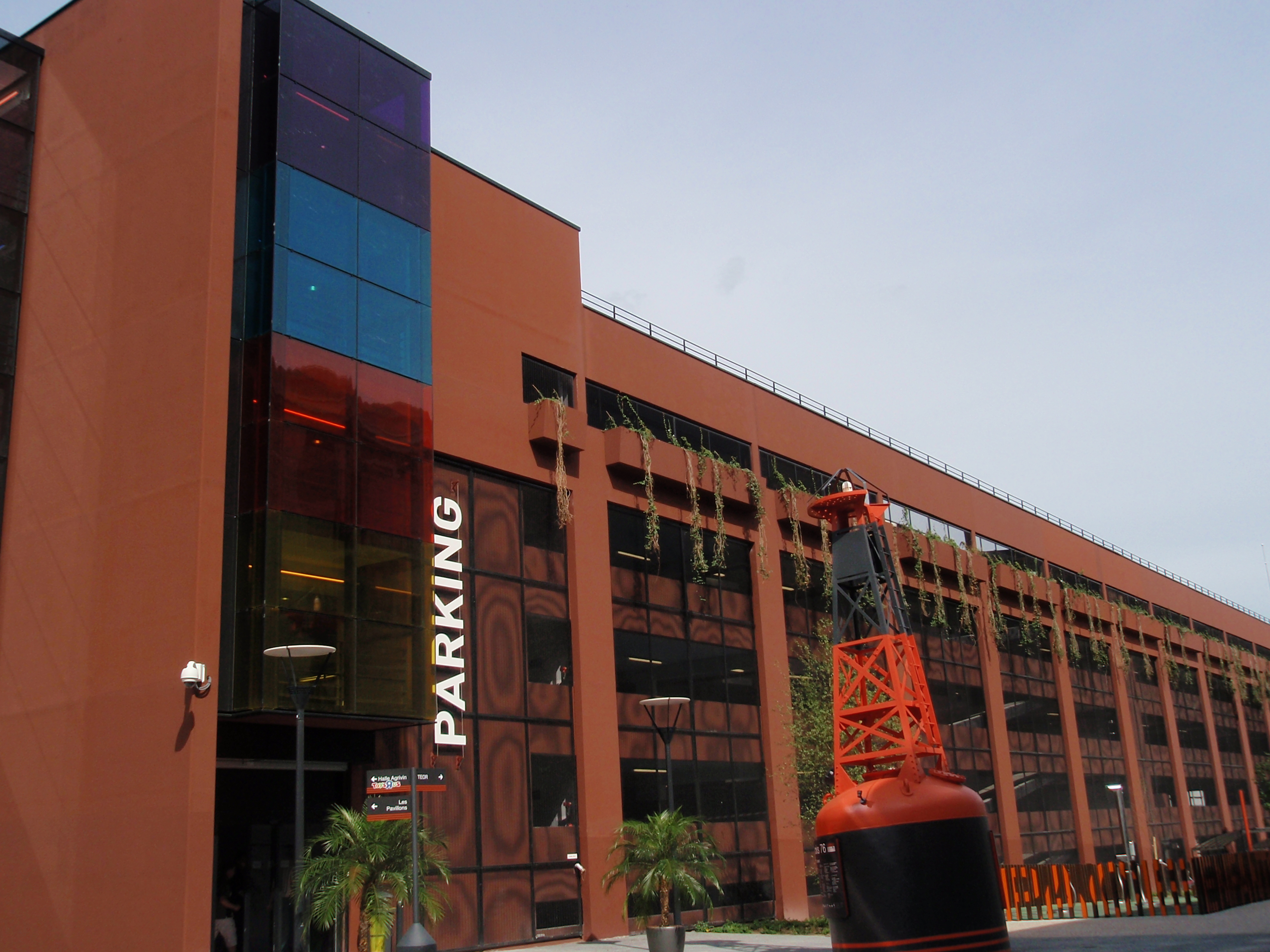 Parking lot of the shopping mall "Docks76" in Rouen, France